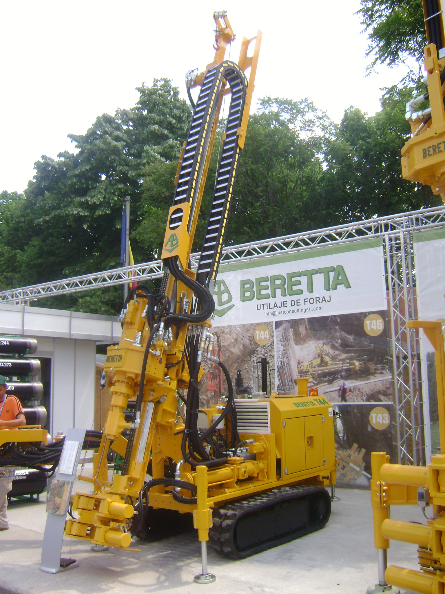 BERETTA T44 drilling rig seen in Bucharest, Romania at Romexpo during the 2010 Construct Expo Utilaje international exhibition for construction equipment, machinery and hand tools